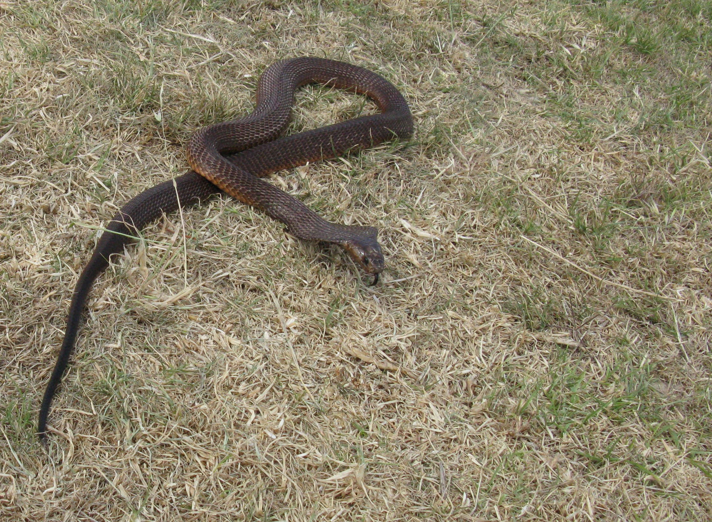 Cape cobra, Naja nivea in a dark reddish brown unspeckled colour. A little unusual. This particular snake is sufficiently aroused to show a hood, but not enough to rear up and remain in threat posture with hood fully spread.